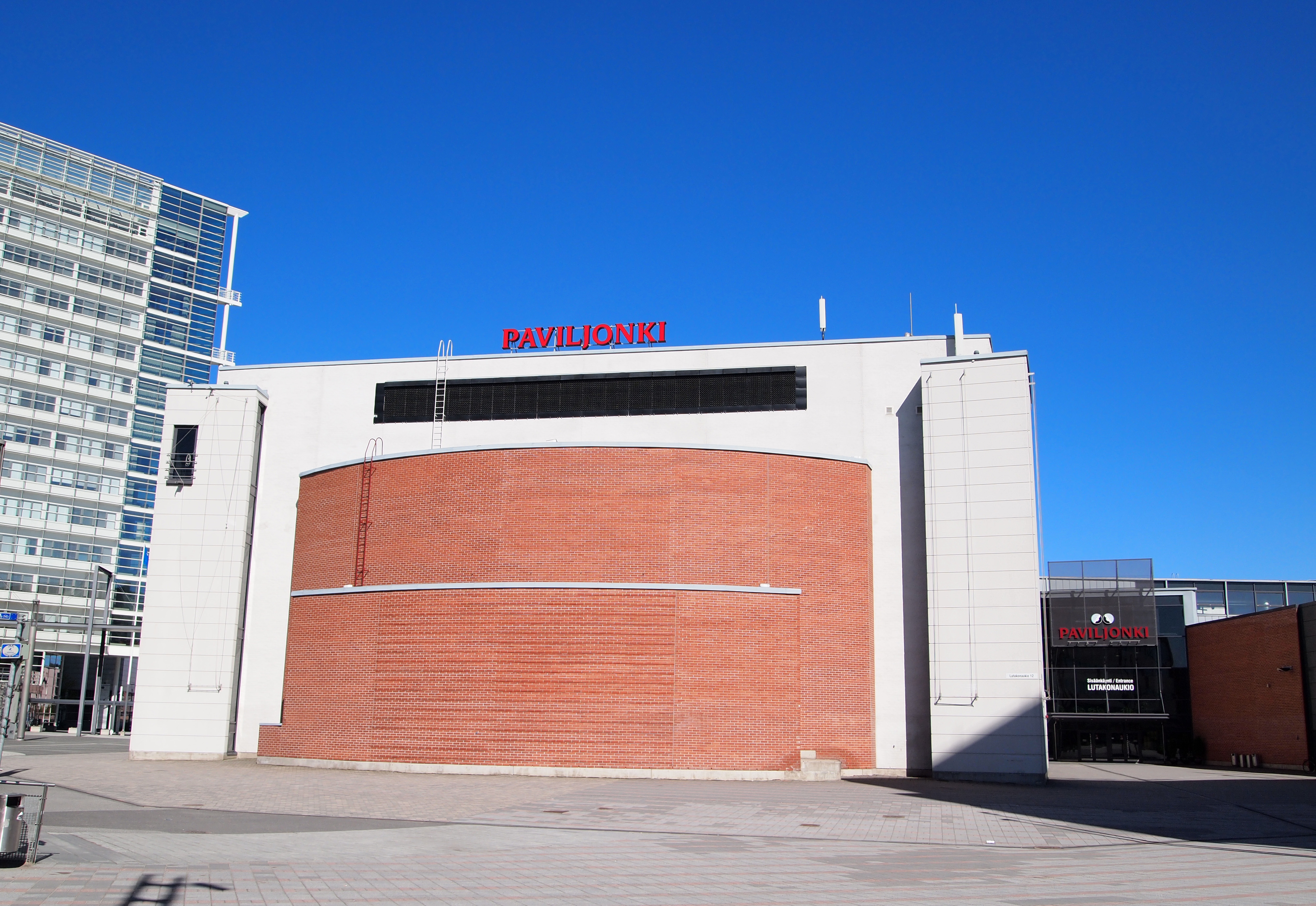 Building Paviljonki in Jyväskylä. This photograph was taken with a Olympus E-PL1.